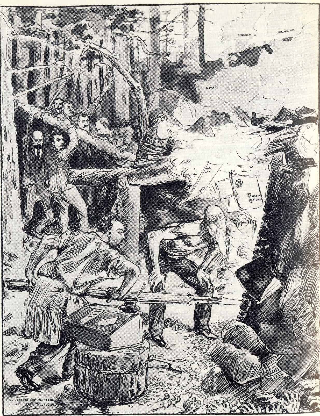 Akseli Gallen-Kallela's caricature, a parody of his own painting Sammon taonta, depicting some persons involved in publication of the book Finland i 19de seklet. Leo Mechelin as "Ilmarinen".